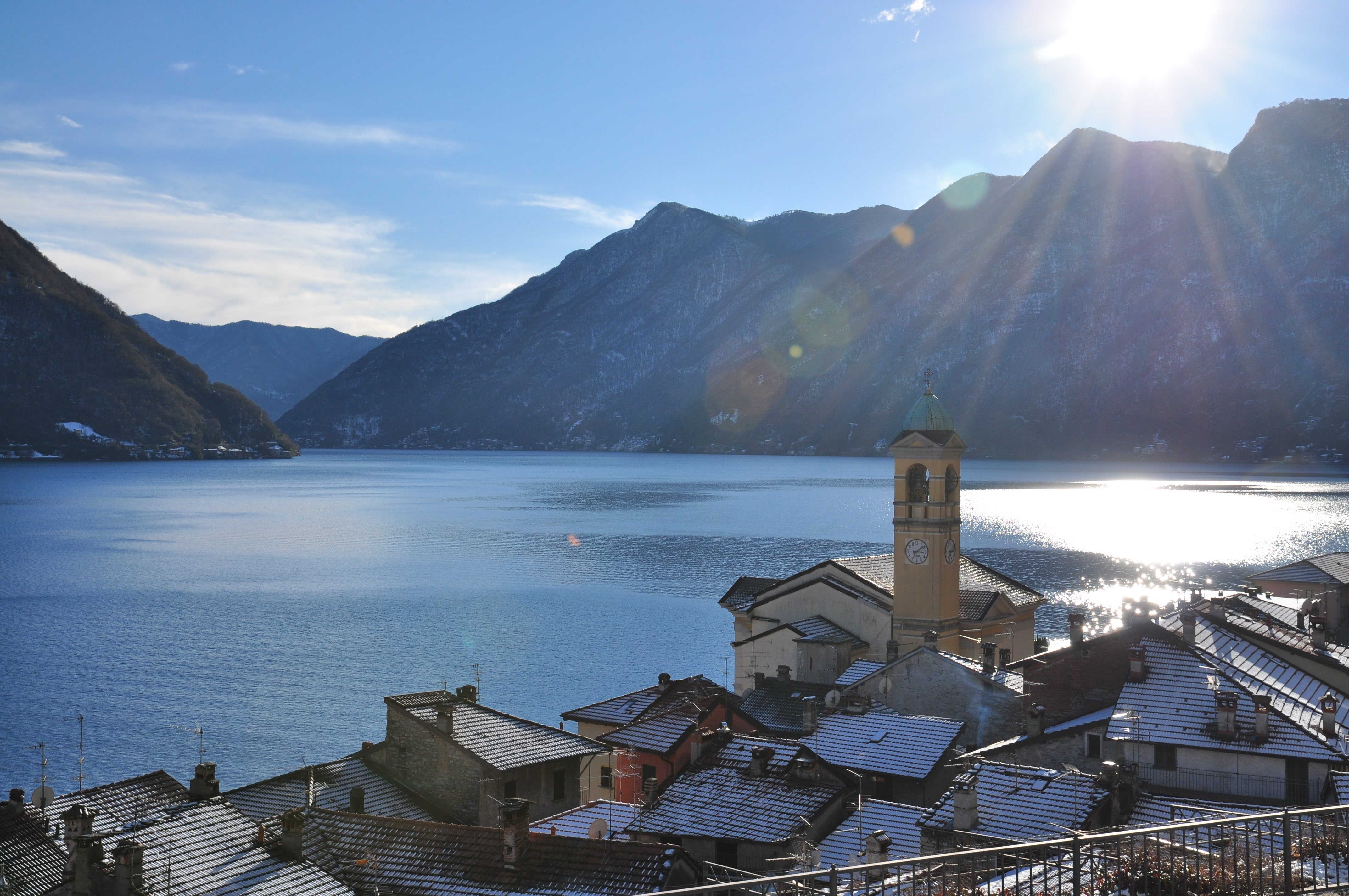 View of Colonno (CO), Italy